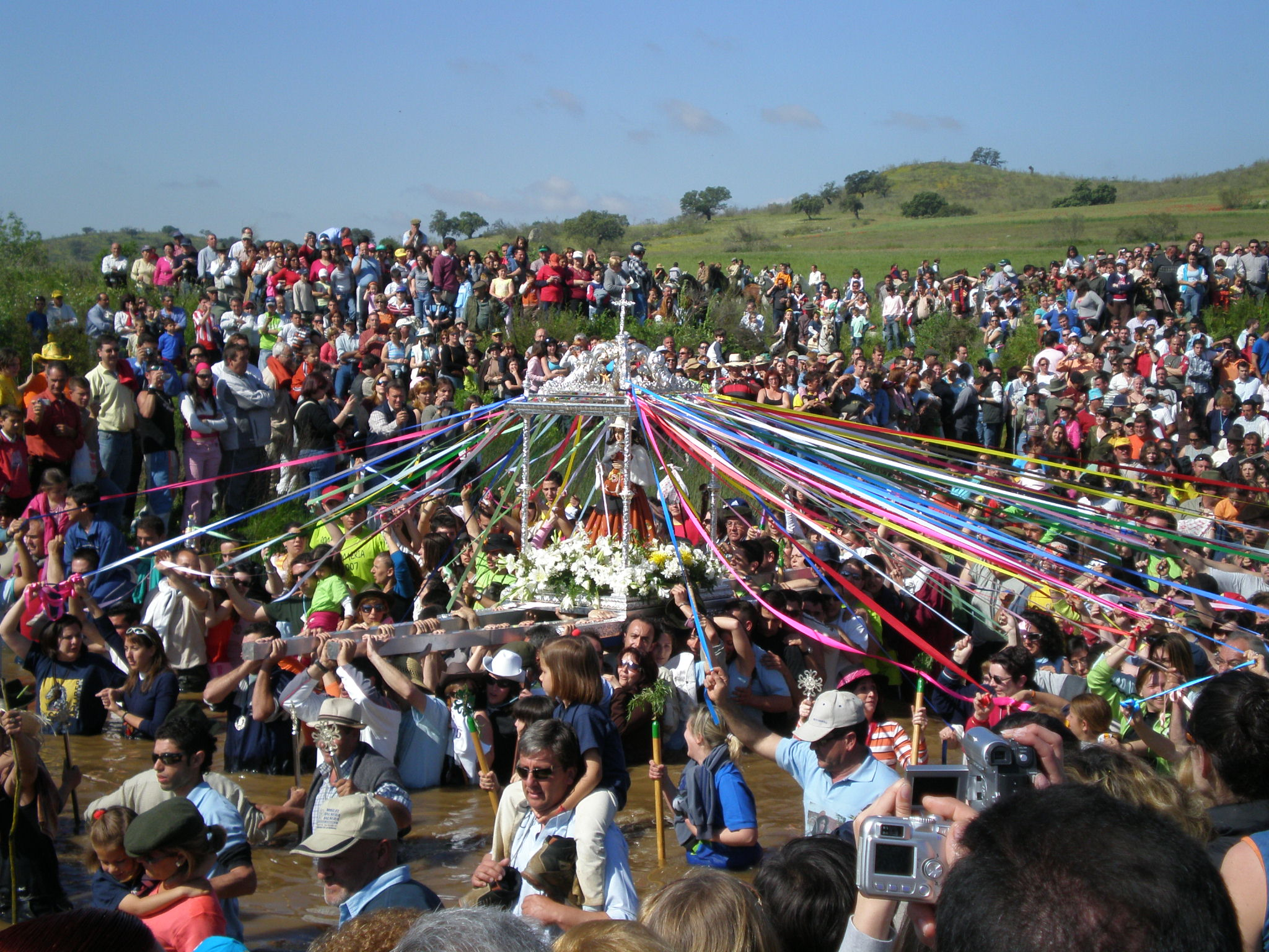 paso del rio zujar po la virgen de la alcantarilla patrona de belalcazar